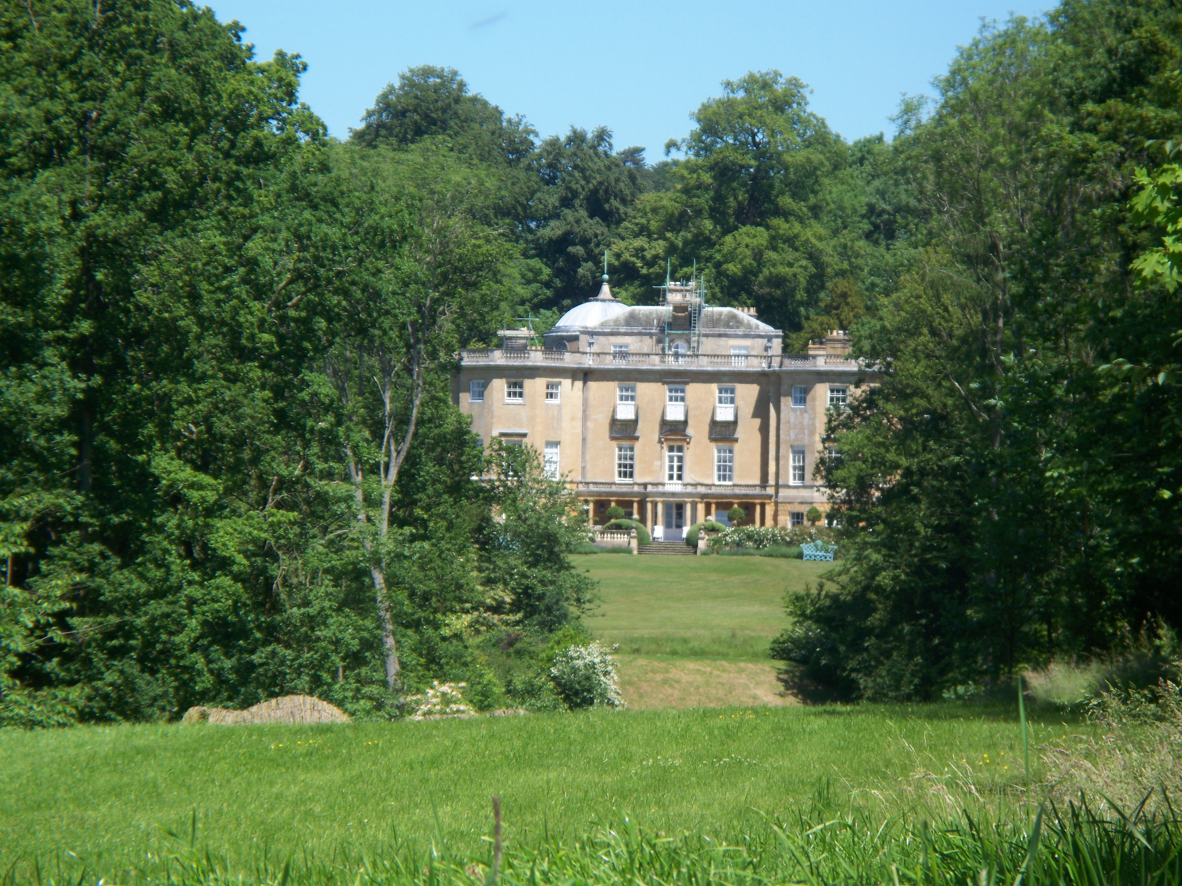 Daylesford House, near to Adlestrop, Gloucestershire, Great Britain. Seen from the driveway.